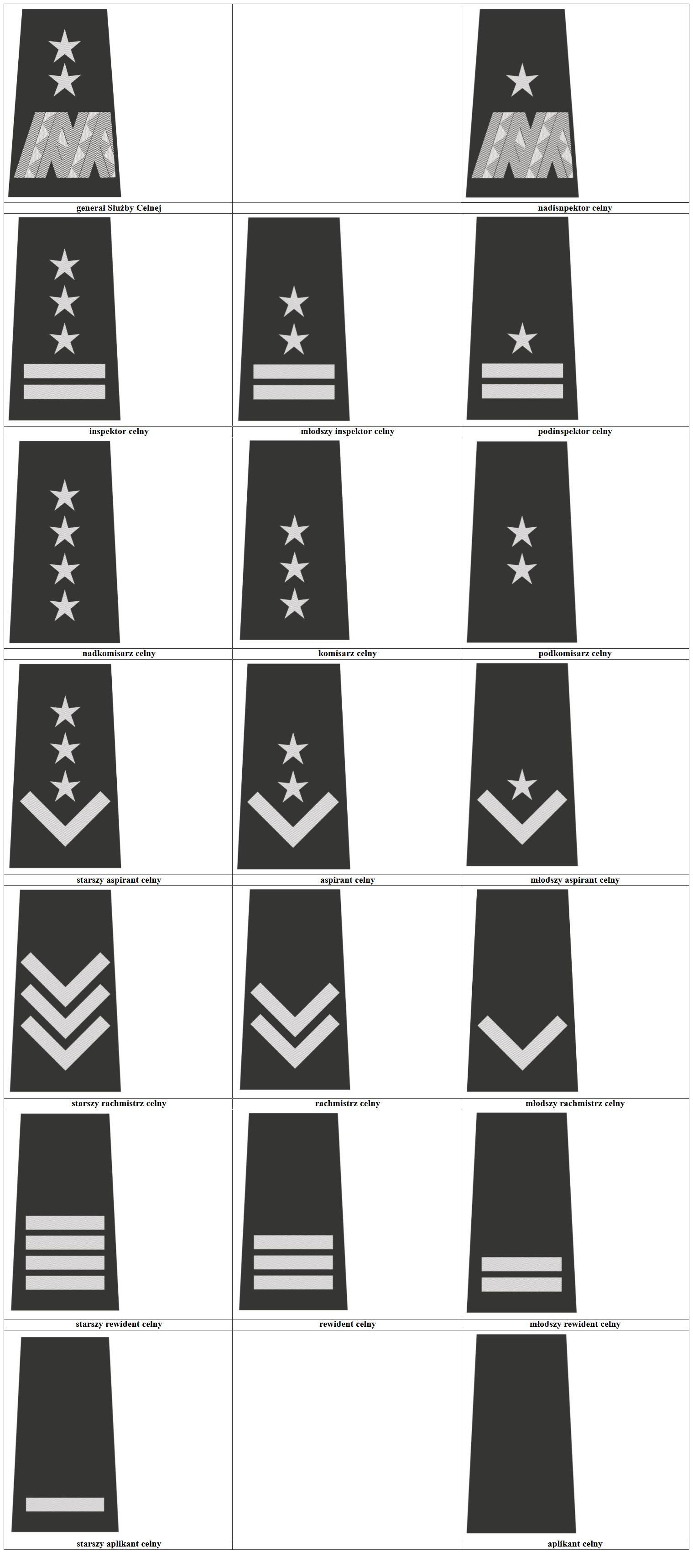 polish customs service